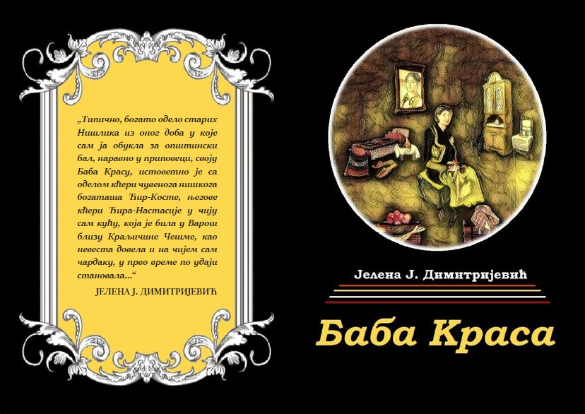 „Баба Краса“ (колаж на корицама Љиљана Стјеља)